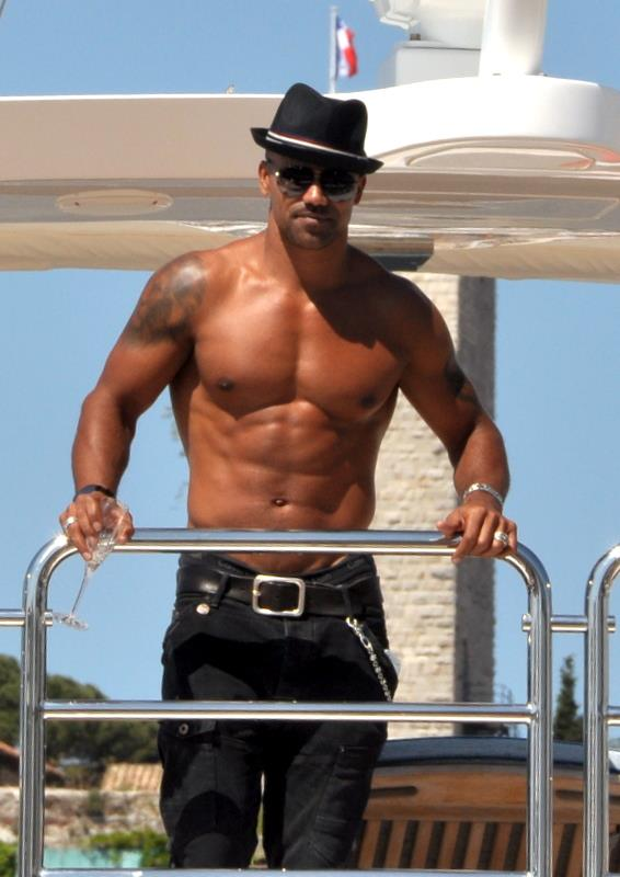 Shemar Moore at the Cannes film festival